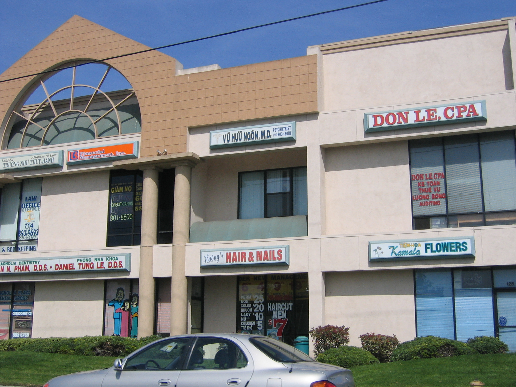 Vietnamese-American businesses in Little Saigon of Orange County, California. Shown is 14044 Magnolia Street in Westminster, California. [1]